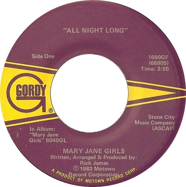 A-side label of "All Night Long" by Mary Jane Girls (US vinyl, 1690GF [66805])